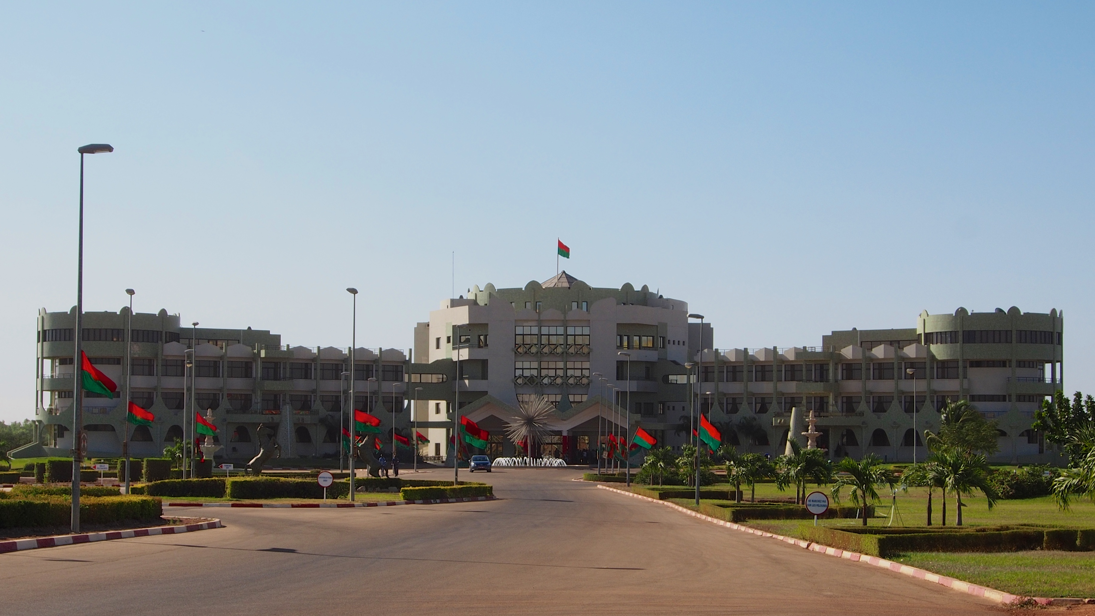 Palais Kosyam, the new presidential palais in Ouagadougou, Burkina Faso